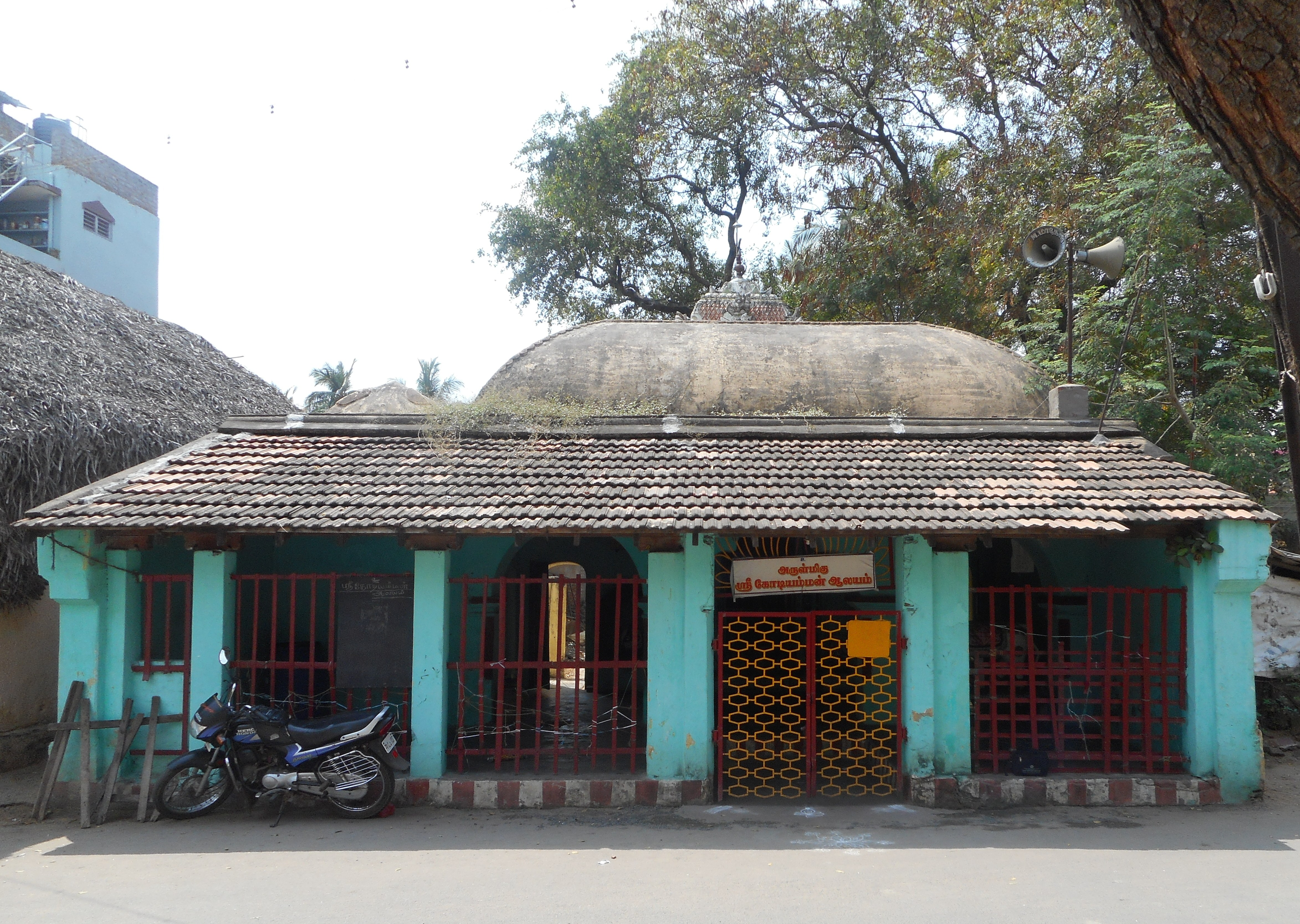 Kumbakonam Kodiamman temple கும்பகோணம் கோடியம்மன் கோயில்